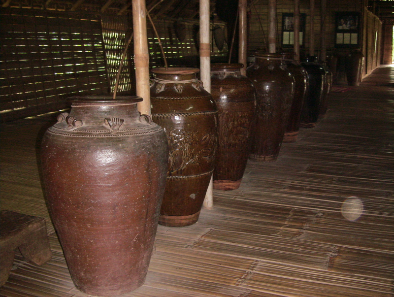 Jars of rượu cần in a long house of E De people in Tây Nguyên, Vietnam.